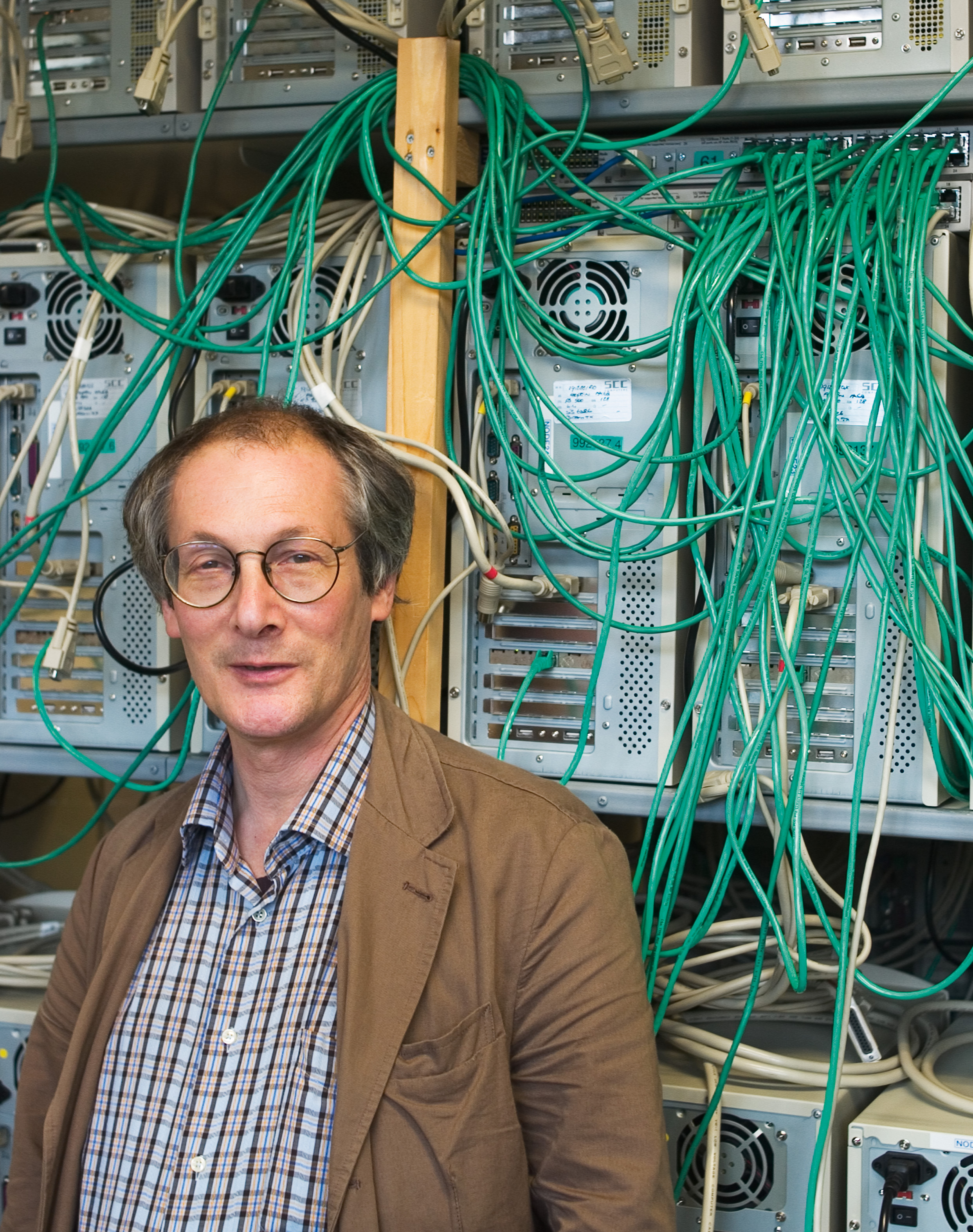 Dutch computational physical chemist Daan Frenkel (2000)